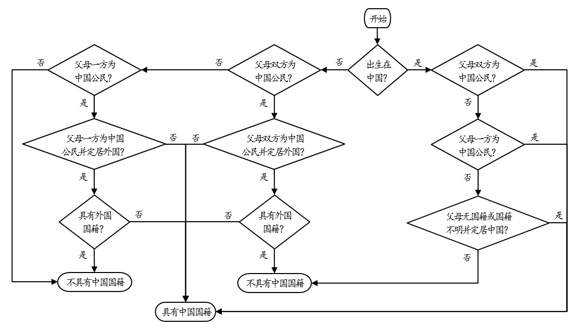 Chinese nationality